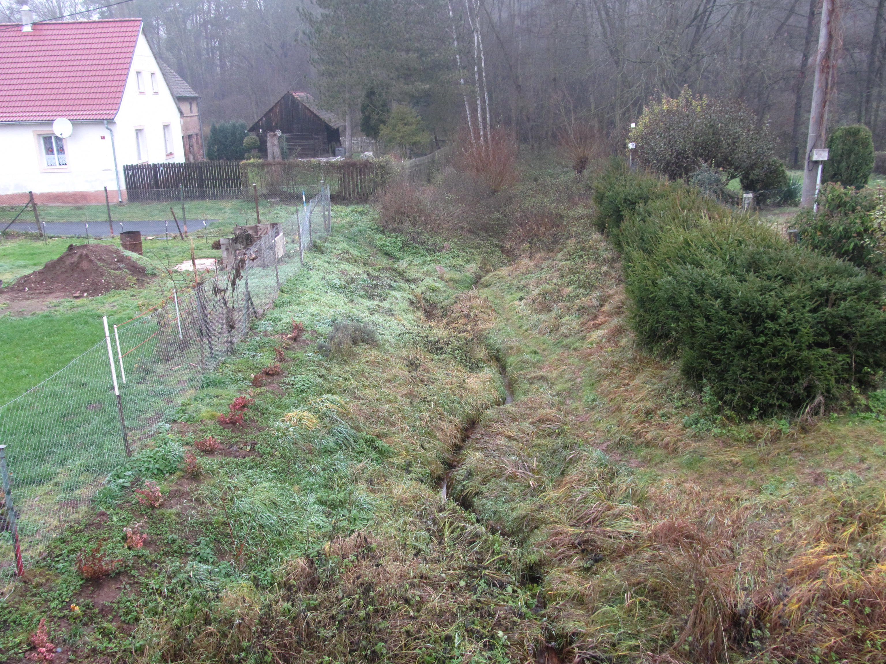 Vlkovský potok in Malá Černoc village